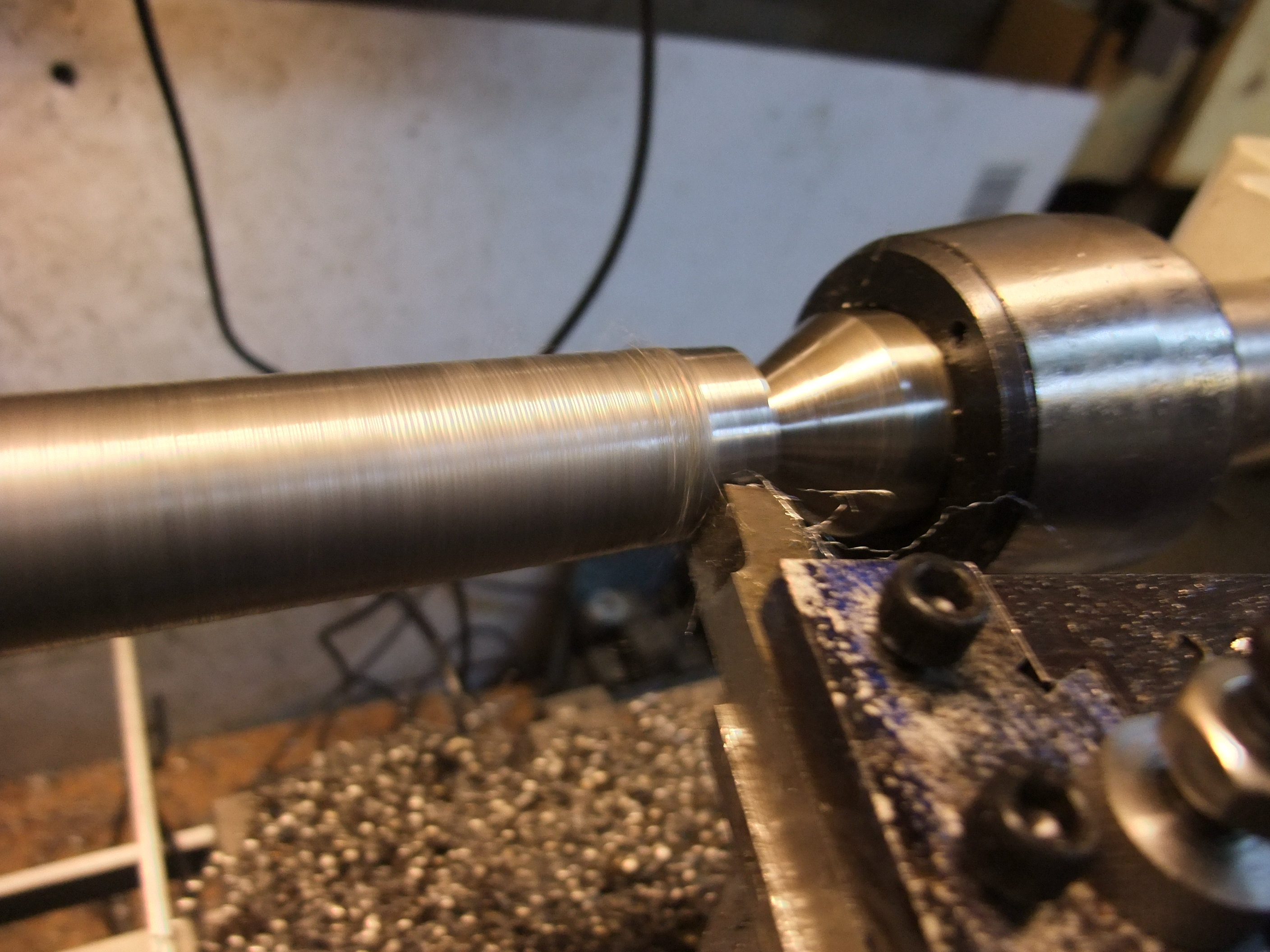 Example of a vertical shear bit in use with a lathe.